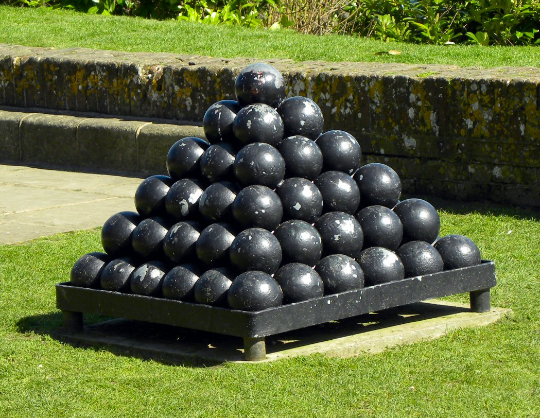 Cannonballs in the garden at Rye Castle, Rye, East Sussex, England.